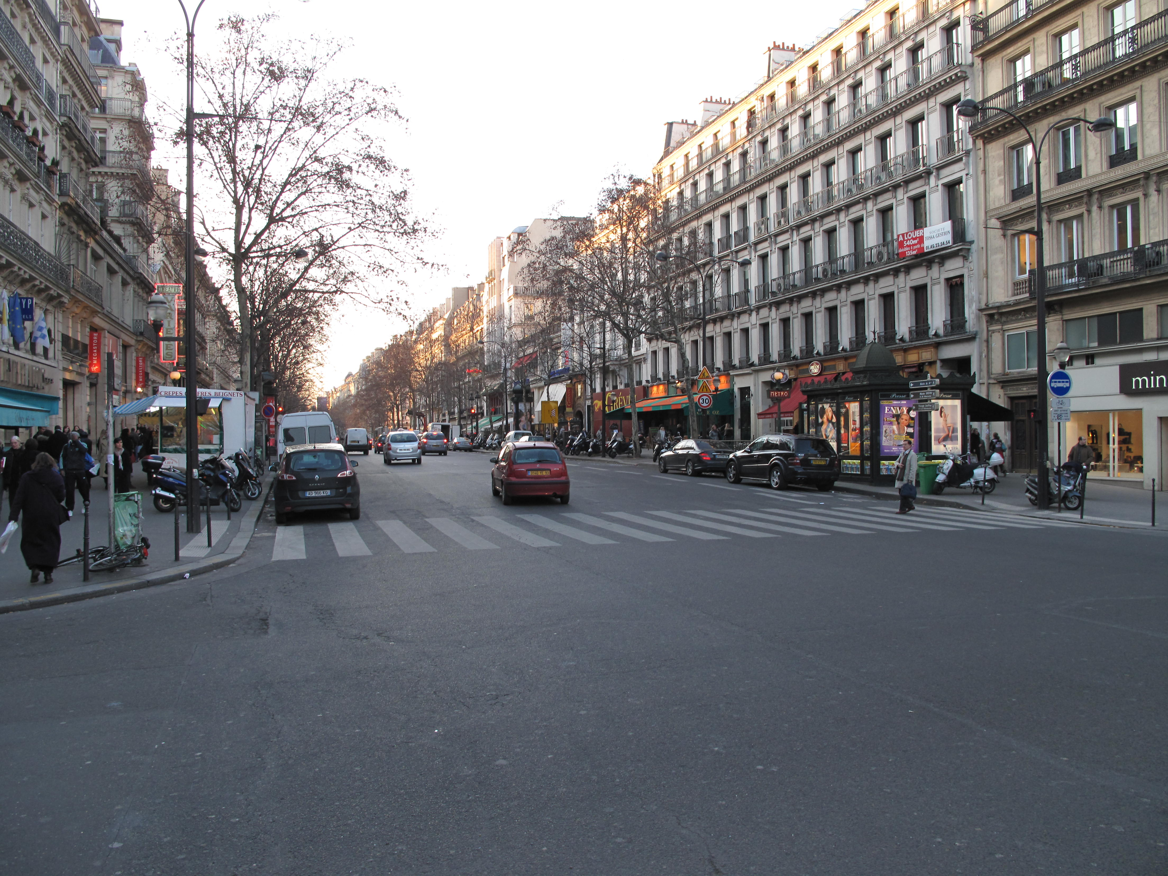 The Boulevard Montmartre in Paris, looking to west